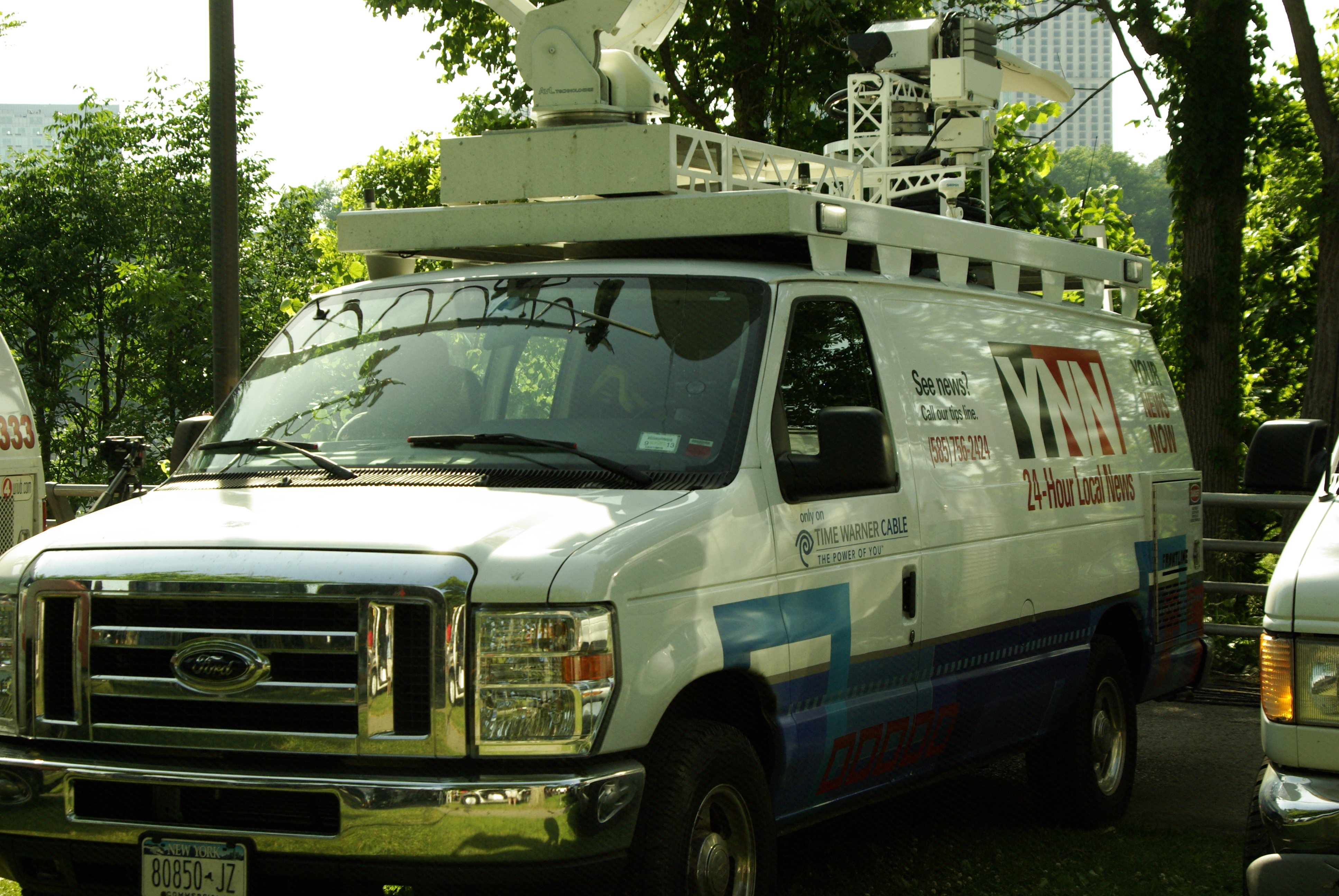 A YNN Buffalo news vehicle.